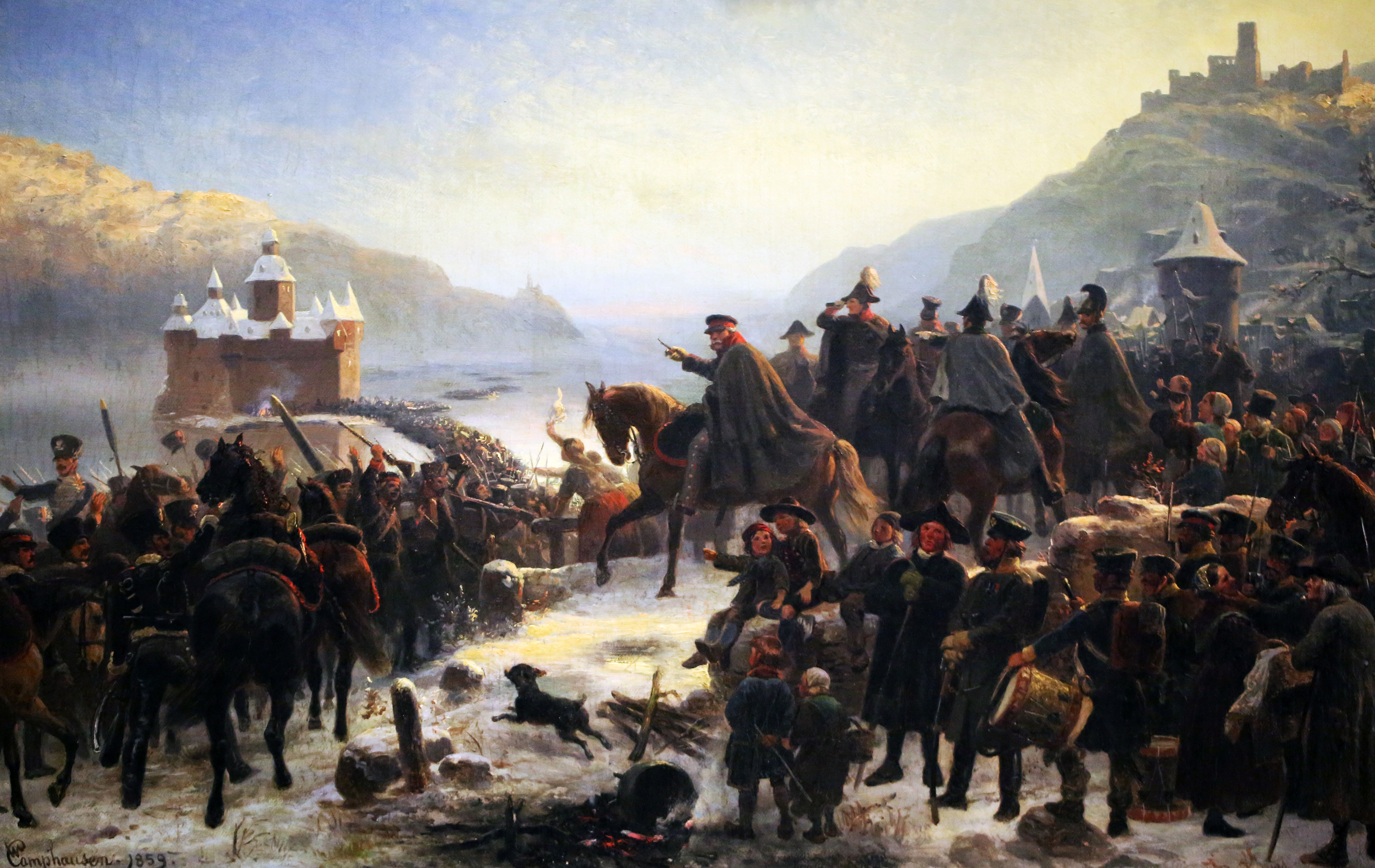 Wilhelm Camphausen 1859. Blücher and the first Army of Silesia crossing on the Rhine near to Kaub on January 1st 814.